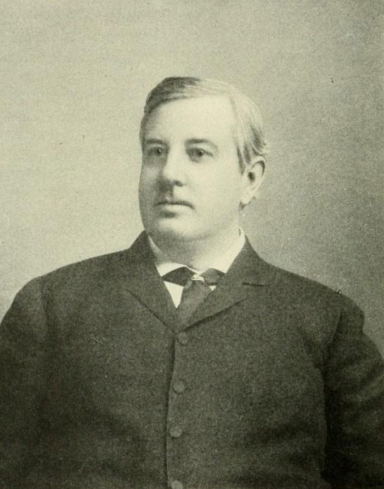 Seantor James Smith, Jr.